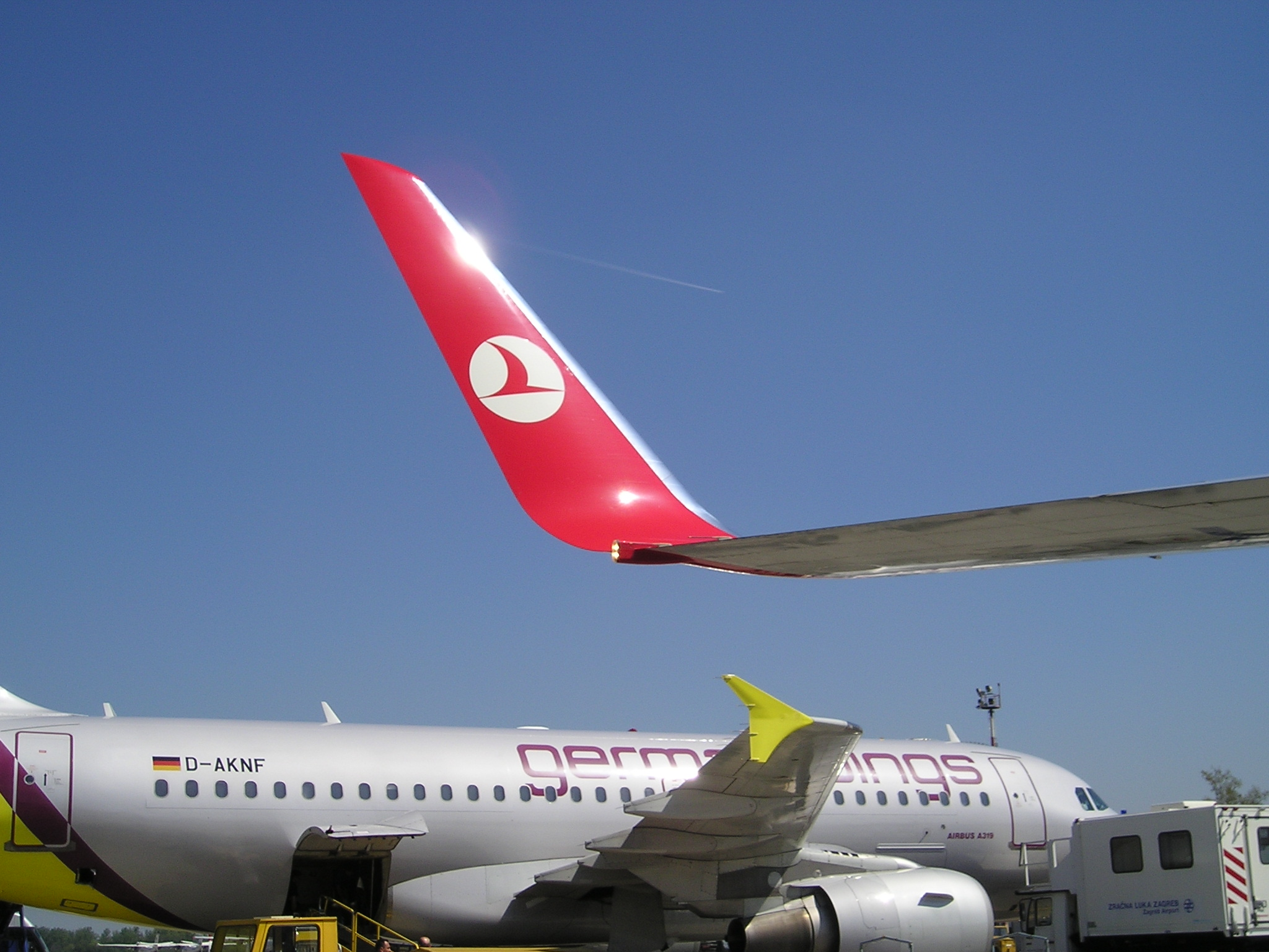 Winglets on B737-800 and A319